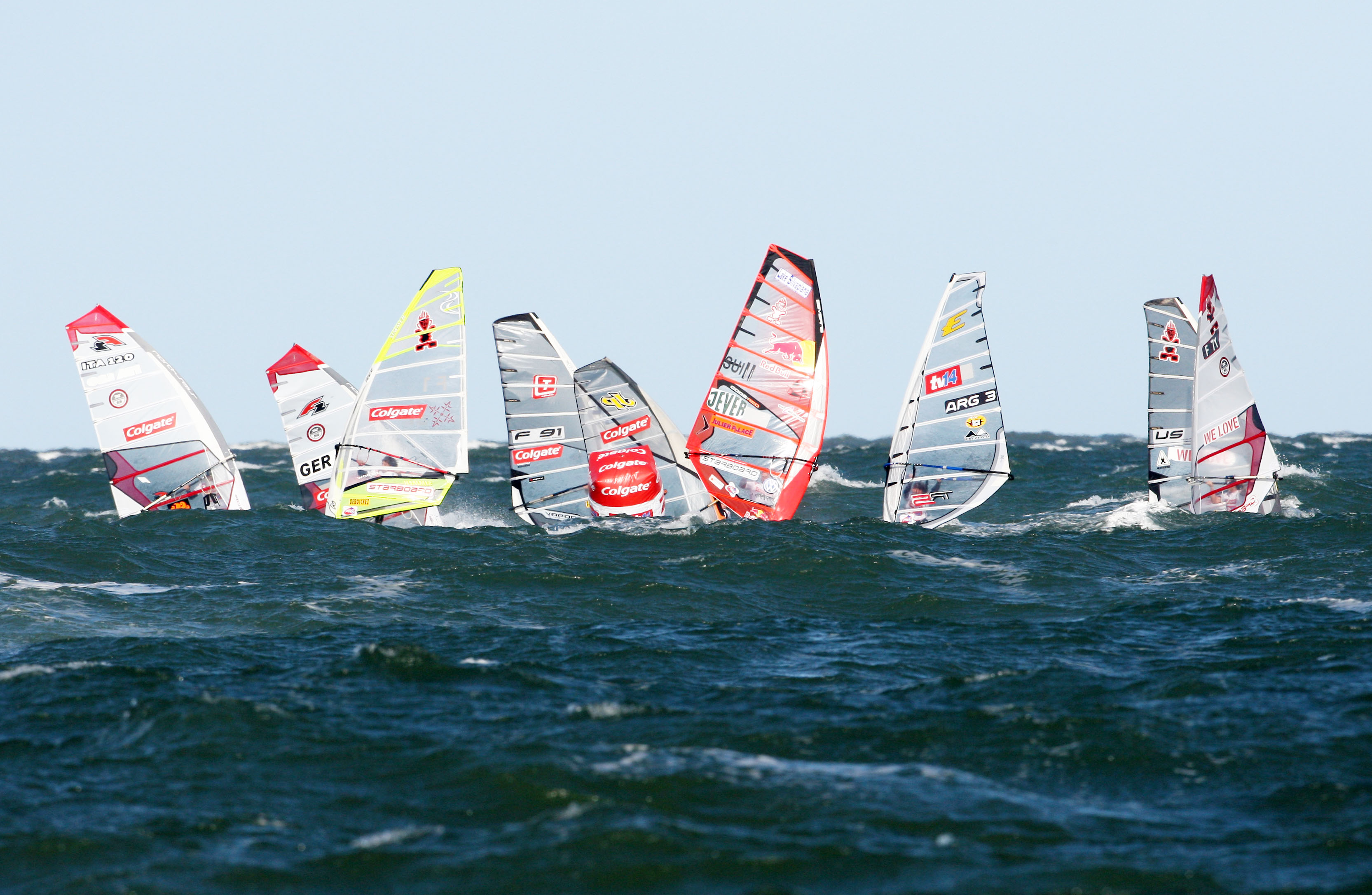 Slalom contest, Windsurf World Cup Sylt 2009